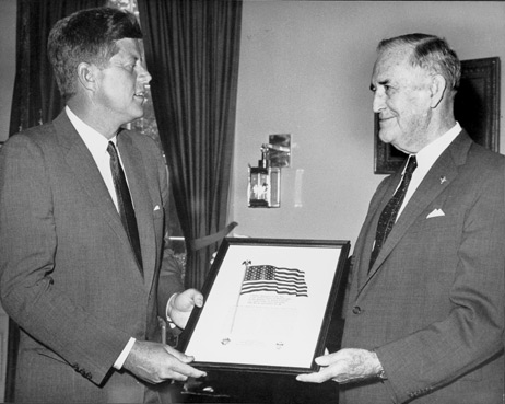 President John F. Kennedy Columbus, receives a framed copy of the Pledge of Allegiance from Supreme Knight Luke E. Hart at the White House in 1961.